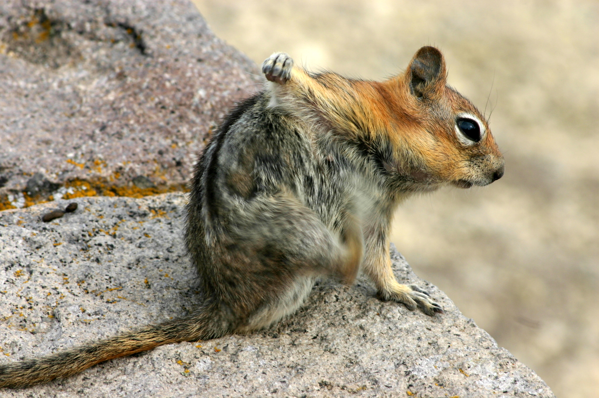 Chipmunk scratching the armpit with its hindlimb